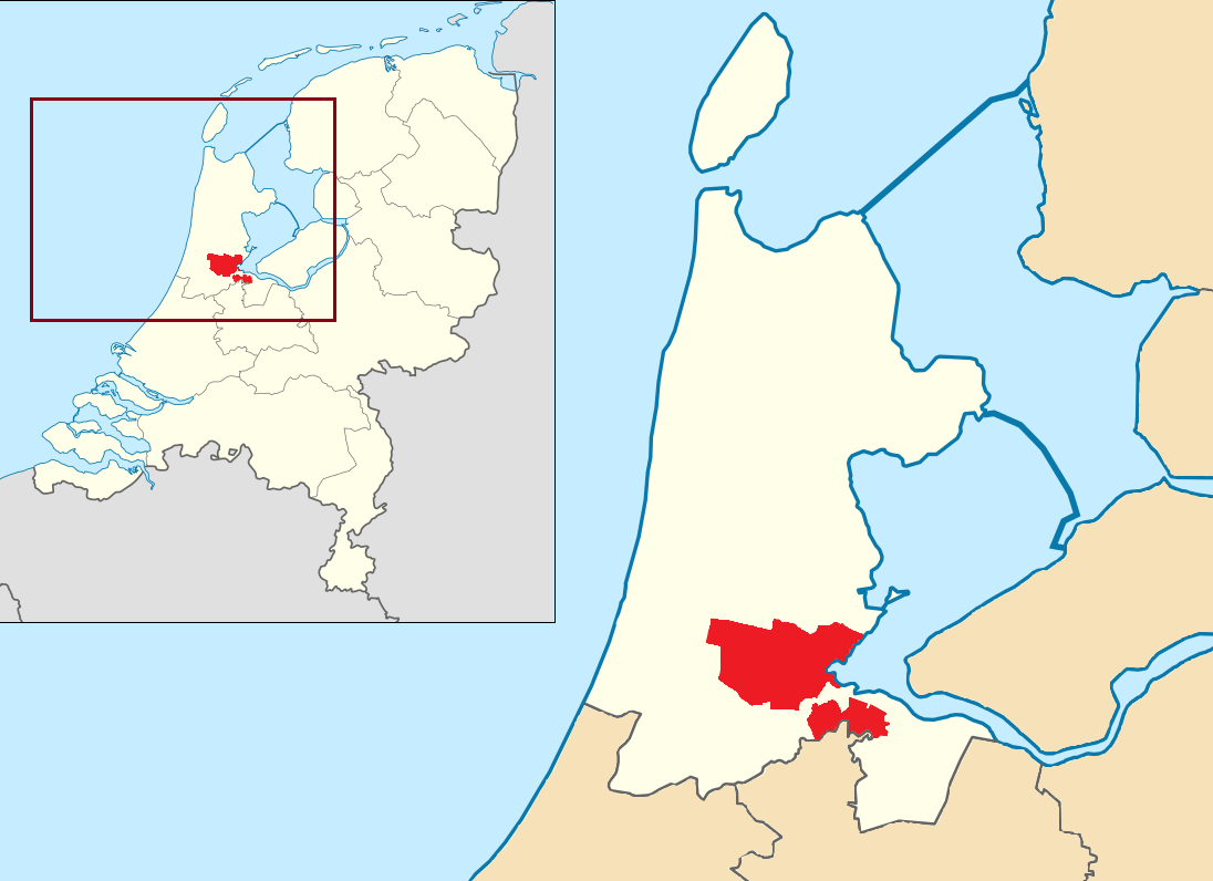 Amsterdam, municipality in the province of North Holland, Netherlands